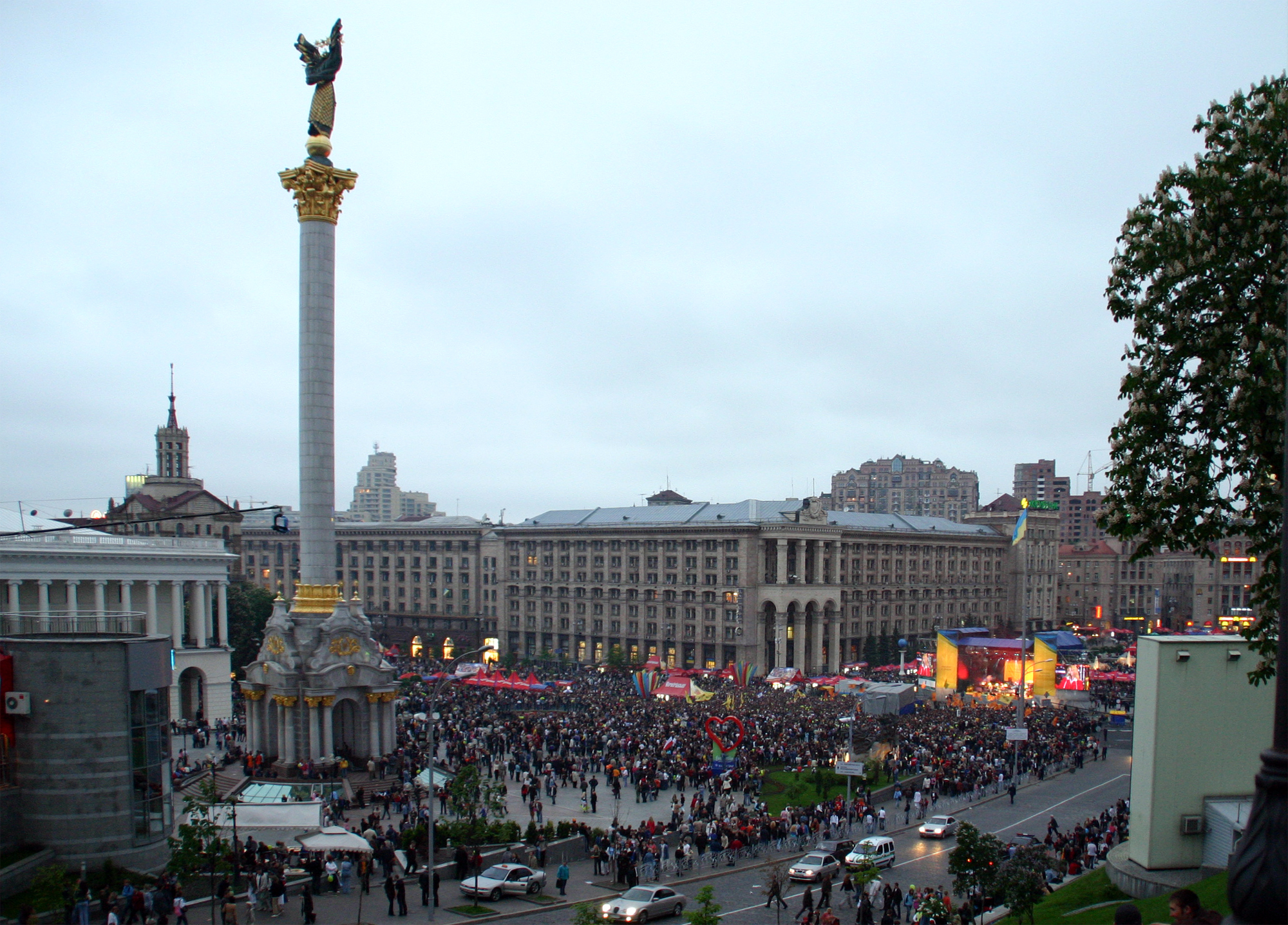 Eurovision Song Contest Kiev, Concert on Maidan Nezaleshnosty.